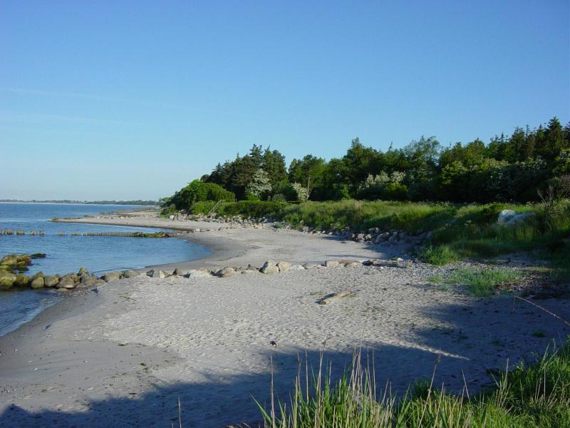 The sandy beach at Råbylille, Møn, Denmark Author: Ipigott